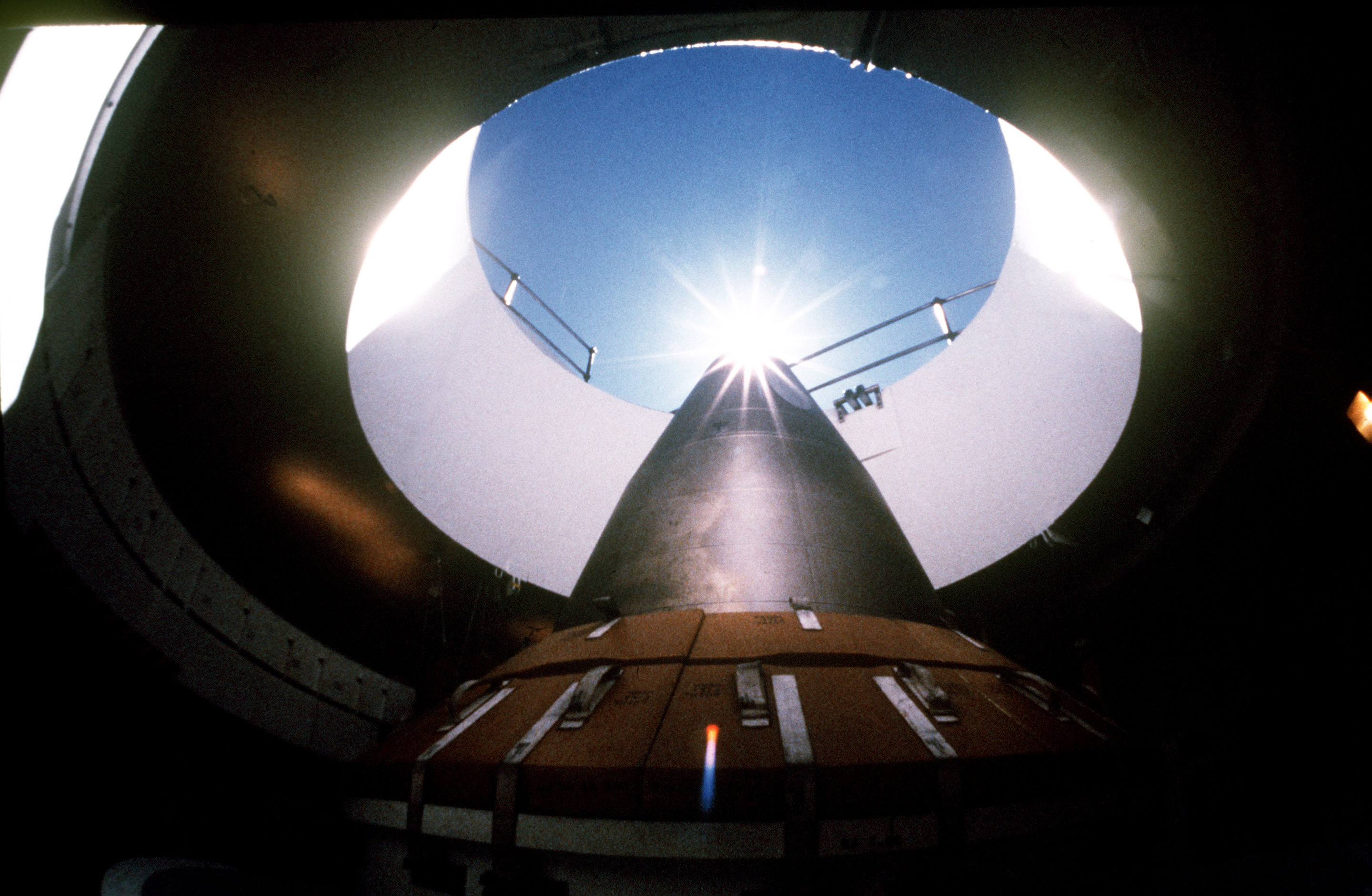 ID: DFST9108812 Service Depicted: Air Force An LGM-118A Peacekeeper intercontinental ballistic missile points skyward from its position in a silo. Location: F. E. WARREN AIR FORCE BASE, WYOMING (WY) UNITED STATES OF AMERICA (USA)